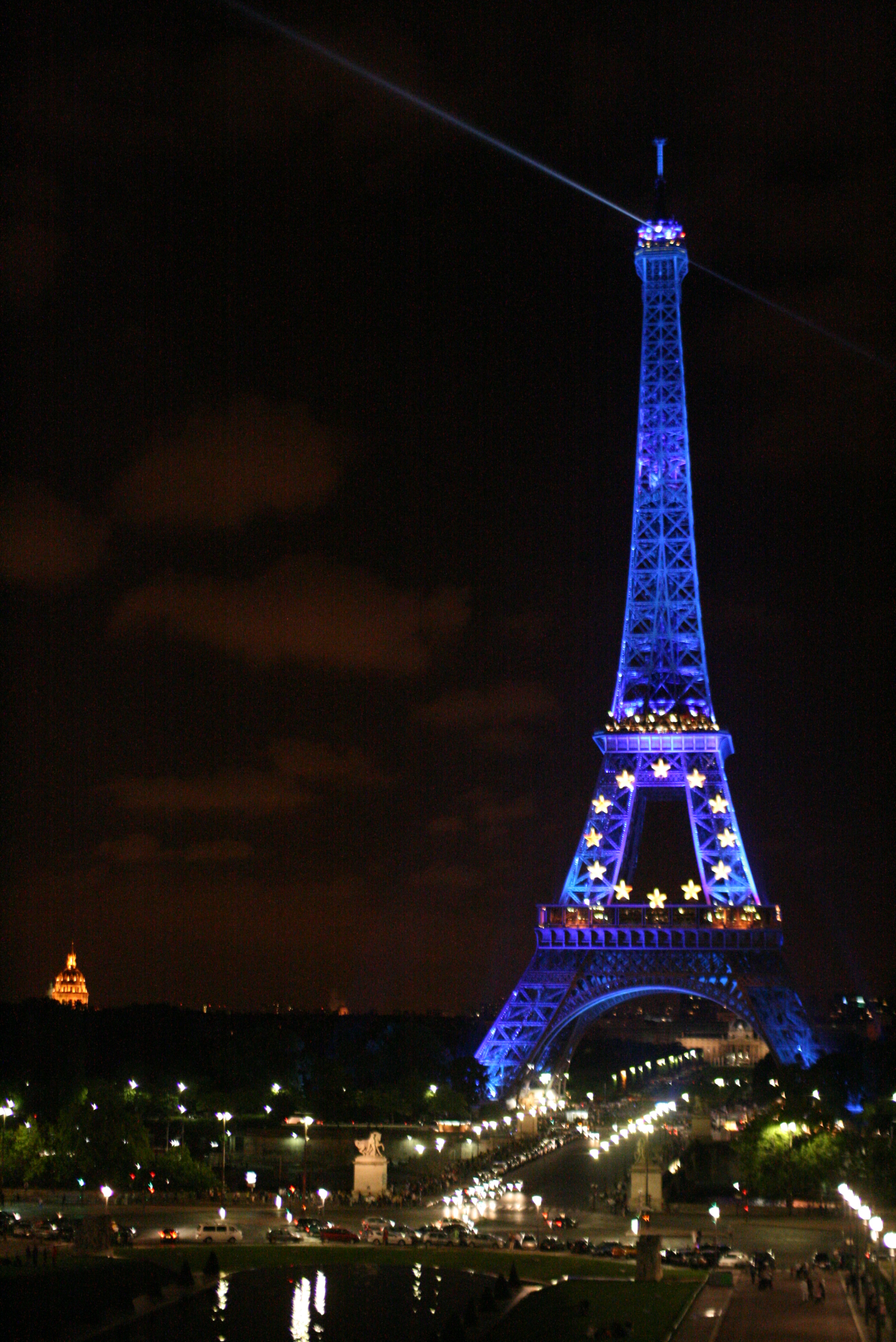 Eiffel Tower wearing Europe colors